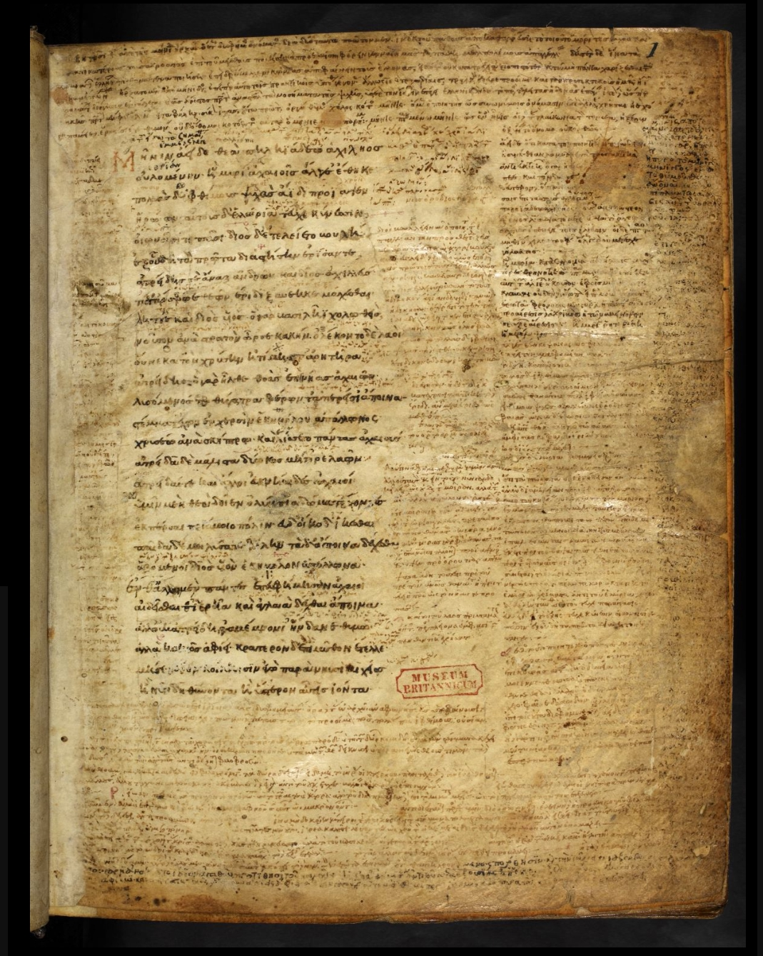 Venetus A, manuscript of the Homeric Iliad; tenth century AD manuscript catalogued in the Biblioteca Marciana